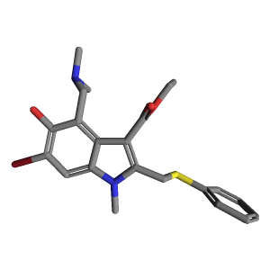 3D-structure of Arbidol